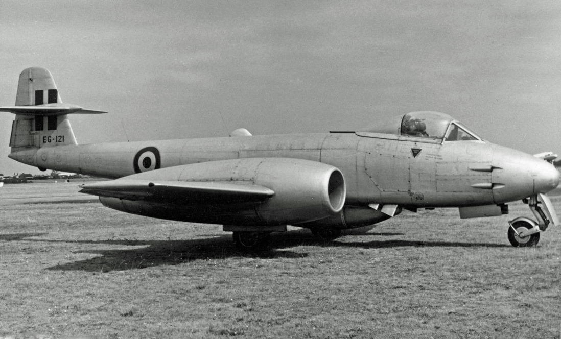 Fokker Aircraft-built Gloster Meteor F.8 EG-121 of the Belgian Air Force at Blackbushe Airport, Hants.